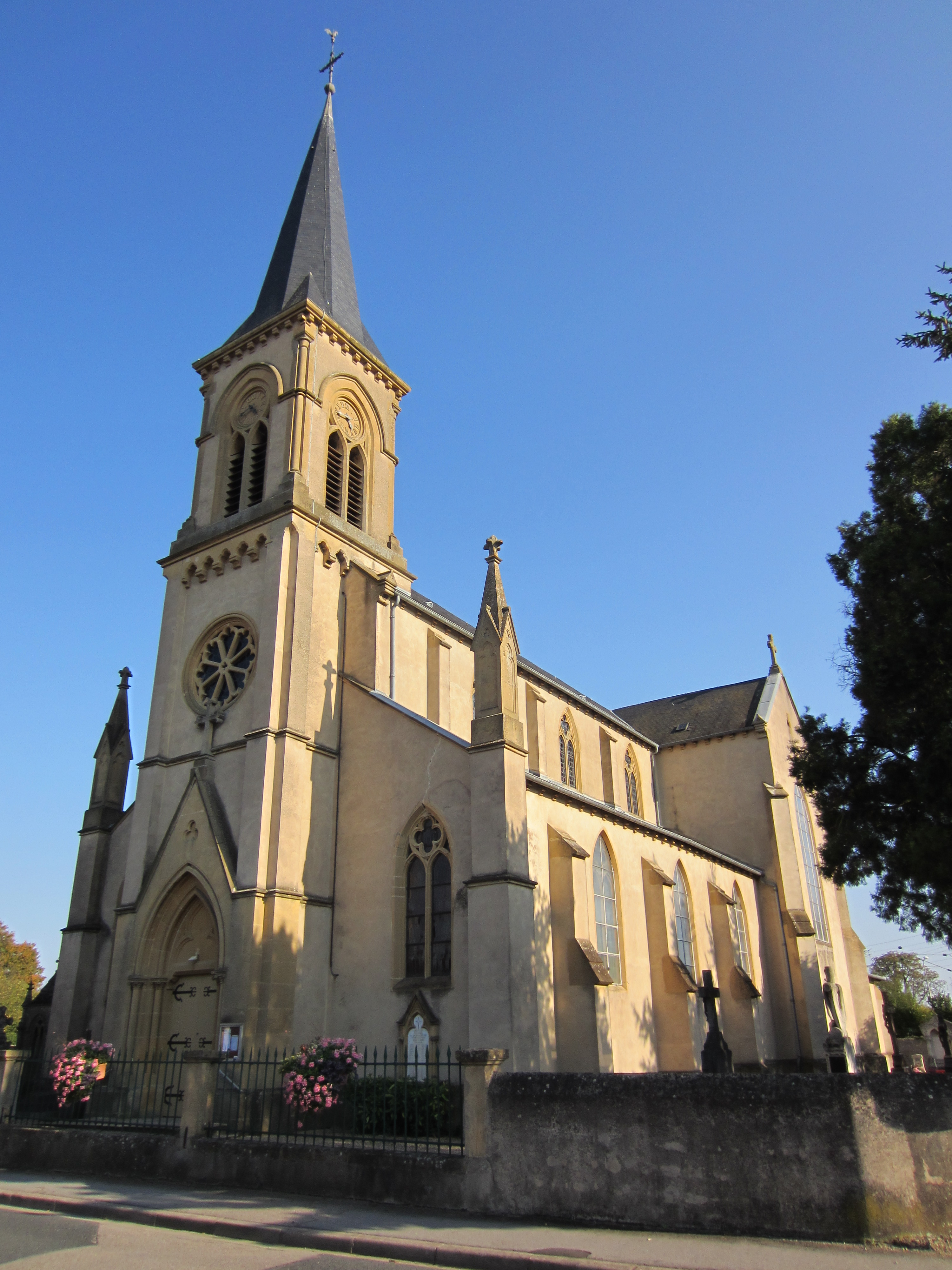 Description eglise Peltre Date30 September 2011Sourcemon appareil photoAuthorAimelaimePermission(Reusing this file) eglise Peltre